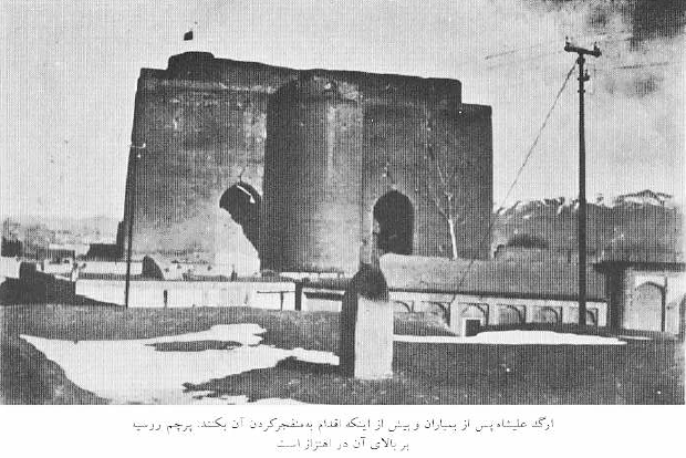 Russian flag on top of Ark before fire, Russian Invasion of Tabriz, 1911 پرچم روسیه بر فراز ارگ تبریز.